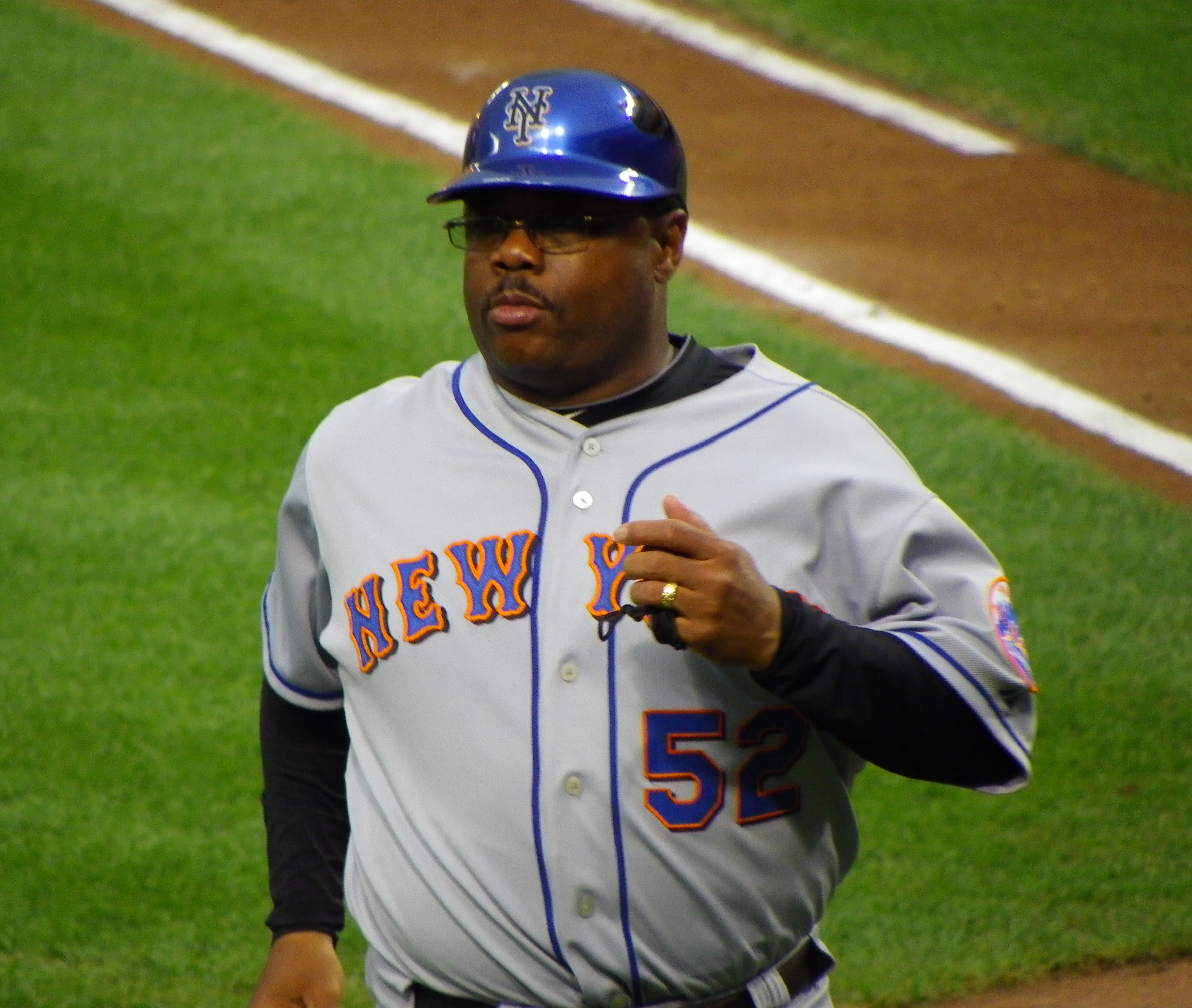 Trip to Baltimore to see the Yankees and the Mets take on the Orioles in back-to-back series